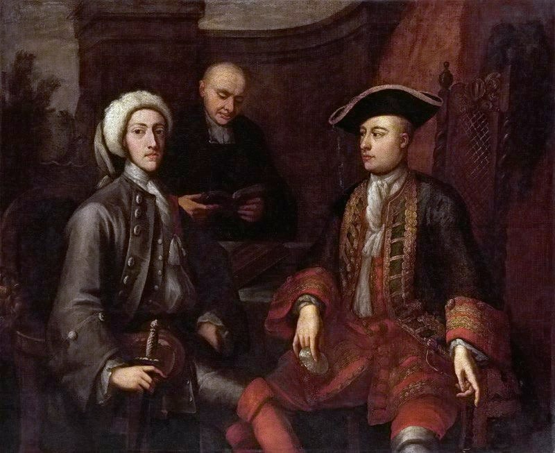 Left: John Montagu, 2nd Duke of Montagu (1690-1749) ; Centre, background: unknown minister of the church(?); right: James O'Hara, 2nd Baron Tyrawley(1682-1774)